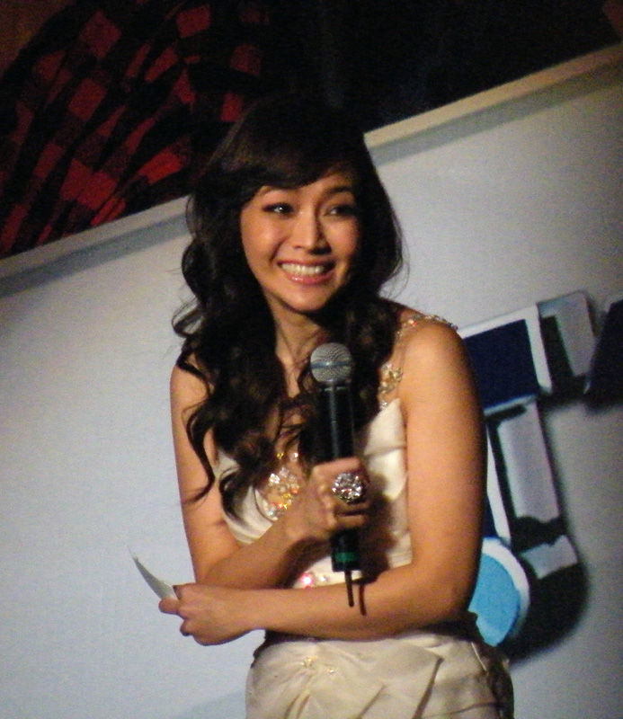 Patty Hou performed in Taipei New Year's Eve Party 2011